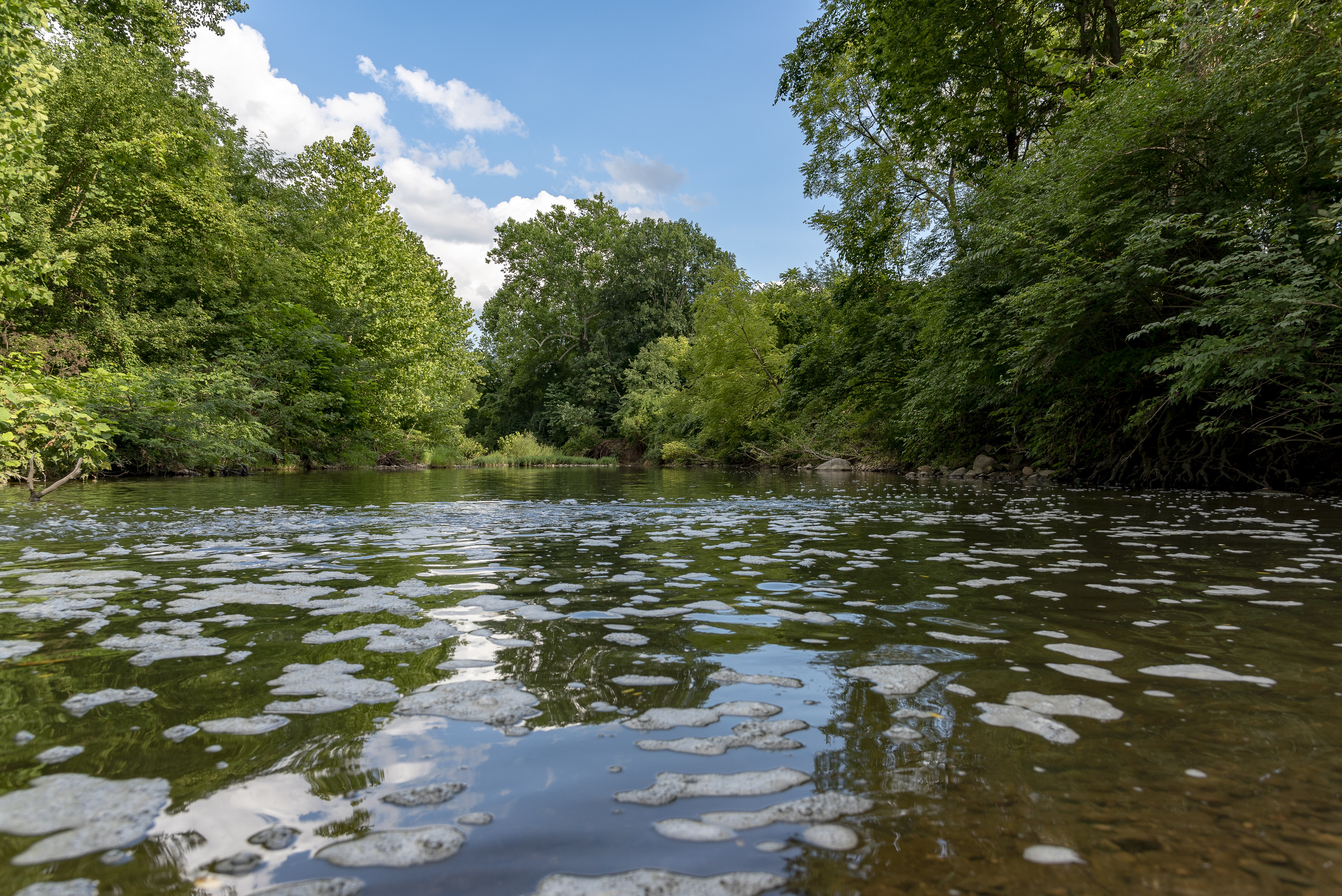 Blacklick Creek as it travels through Blacklick Woods Metro Park in July. The water level was actually lower then normal allowing me access farther into the creek then I am normally comfortable with. This was taken after walking through a normally submerged gravel bar inside Blacklick Creek. A submerged stick was removed in the bottom-right quadrant because I found it distracting.